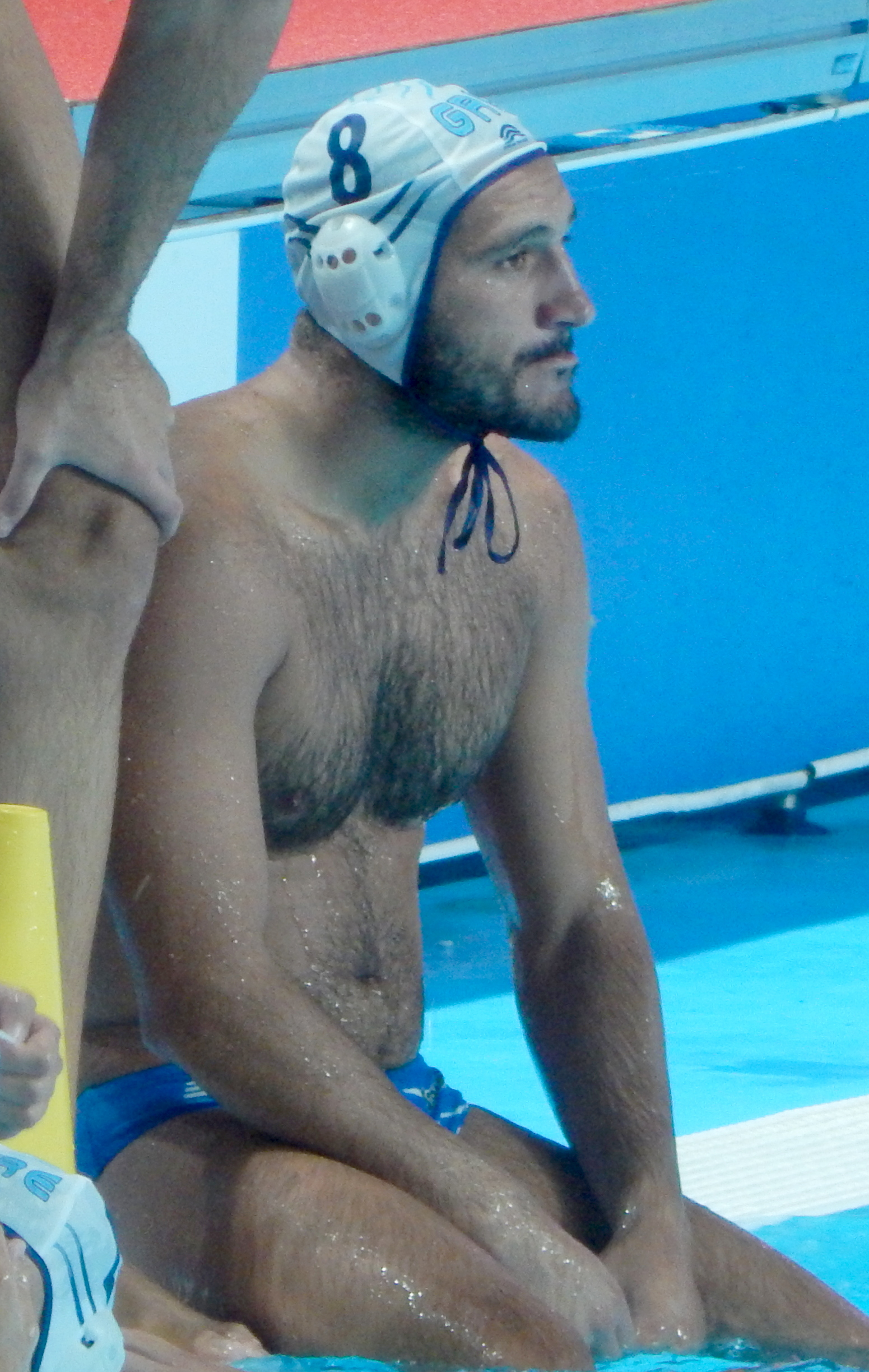 The bronze medal match between Team Greece and Team Italy. All photos have been taken from the photographers sector. I was simply usual visitor but my ticket was to non-existent seats, therefore I was moved to that sector. All good photos I upload to WikiCommons for free use.